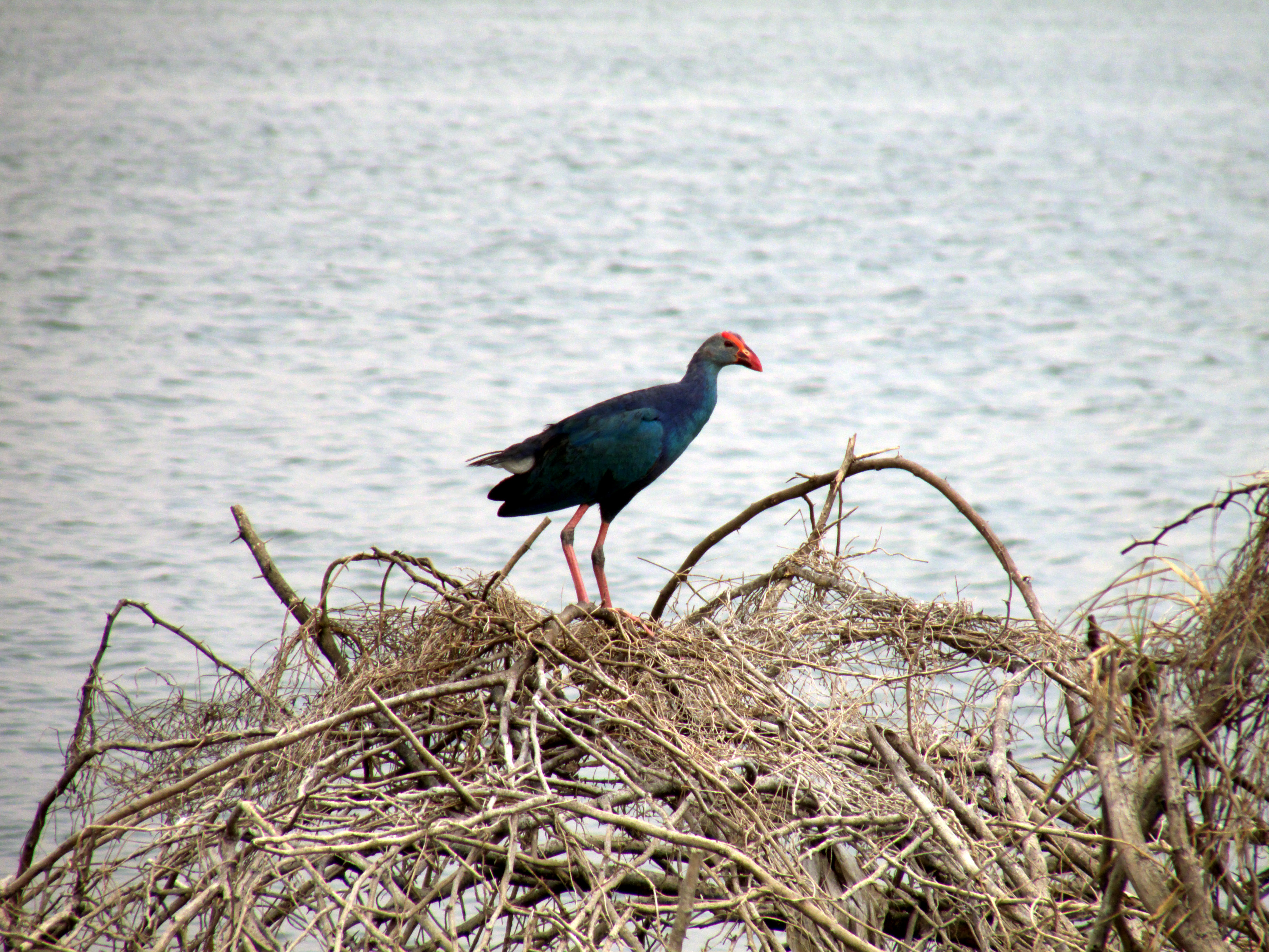 Purple Moore Hen found at Singanallur Tank, Coimbatore, Tamil Nadu, India.